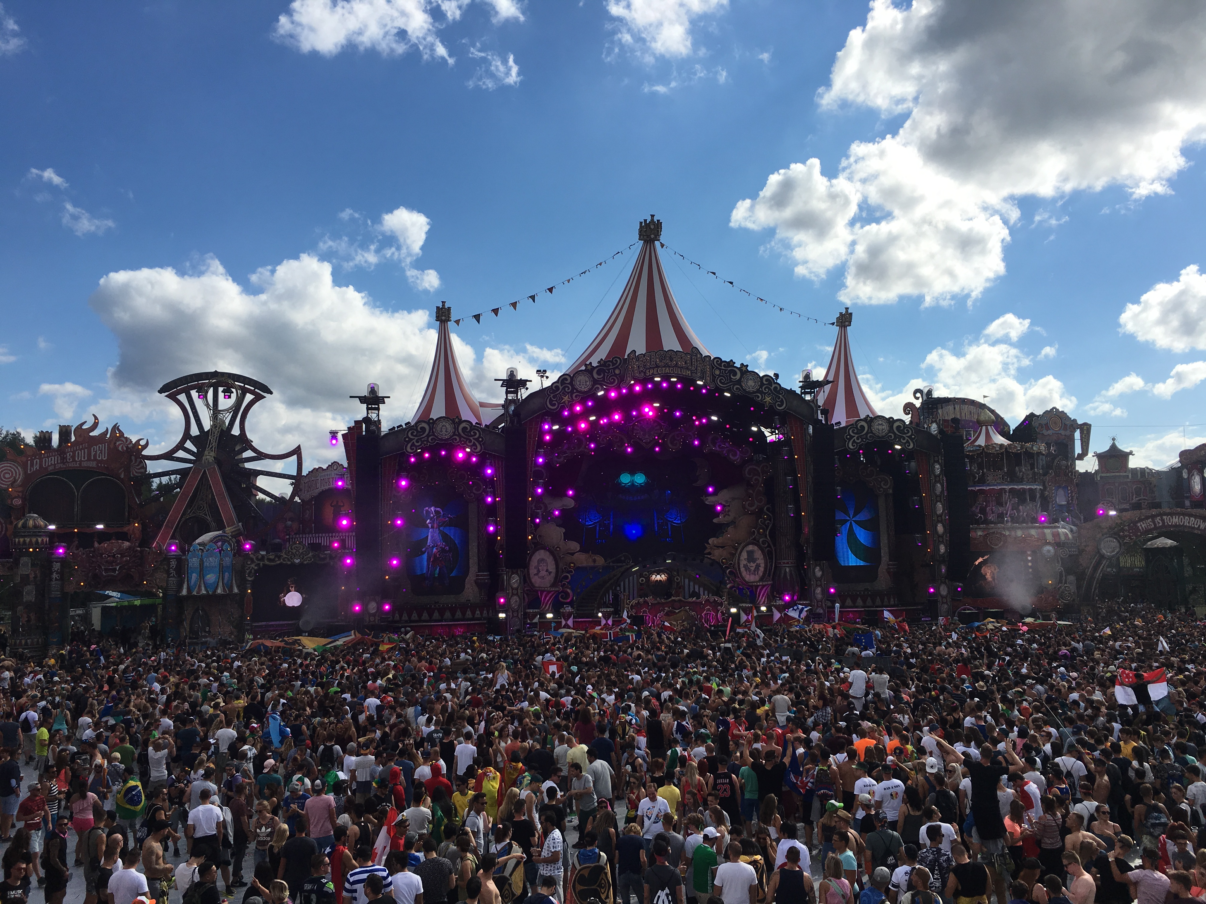 Tomorrowland 2017 main stage, 2017 july 30